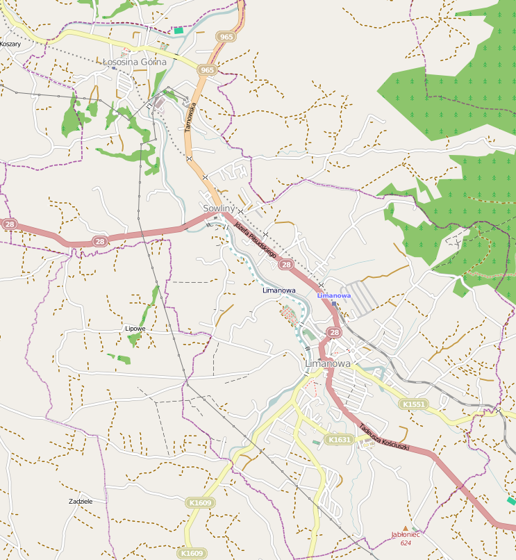 Location map of Limanowa, Poland This map of Limanowa was created from OpenStreetMap project data, collected by the community. This map may be incomplete, and may contain errors. Don't rely solely on it for navigation. Border coordinates49.74420.369←↕→20.45249.686